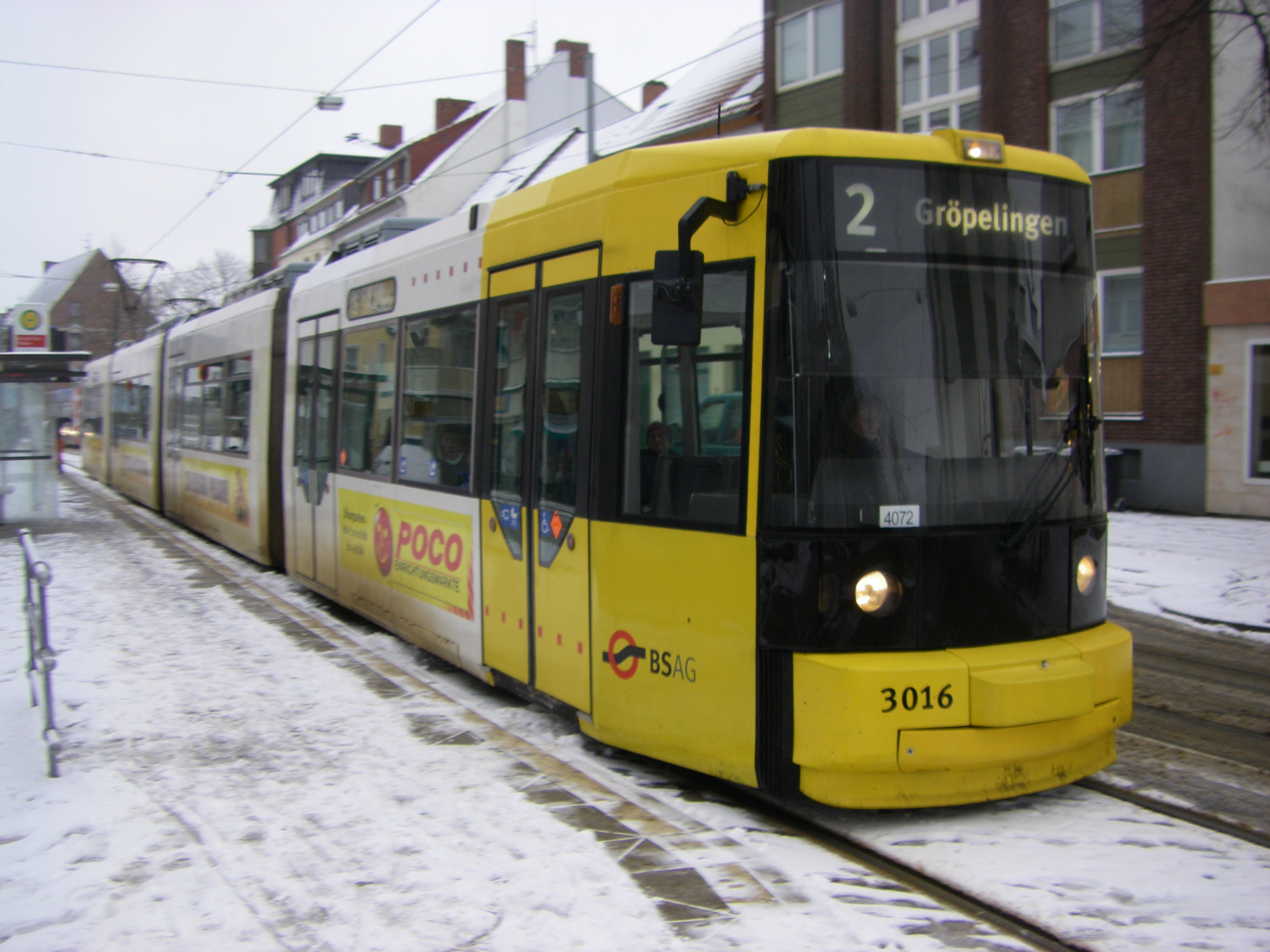 Tram Bremen Type GT8N Nr. 3016 Line 2 date 31. Decembre 2009 in the street "Bei den drei Pfählen"